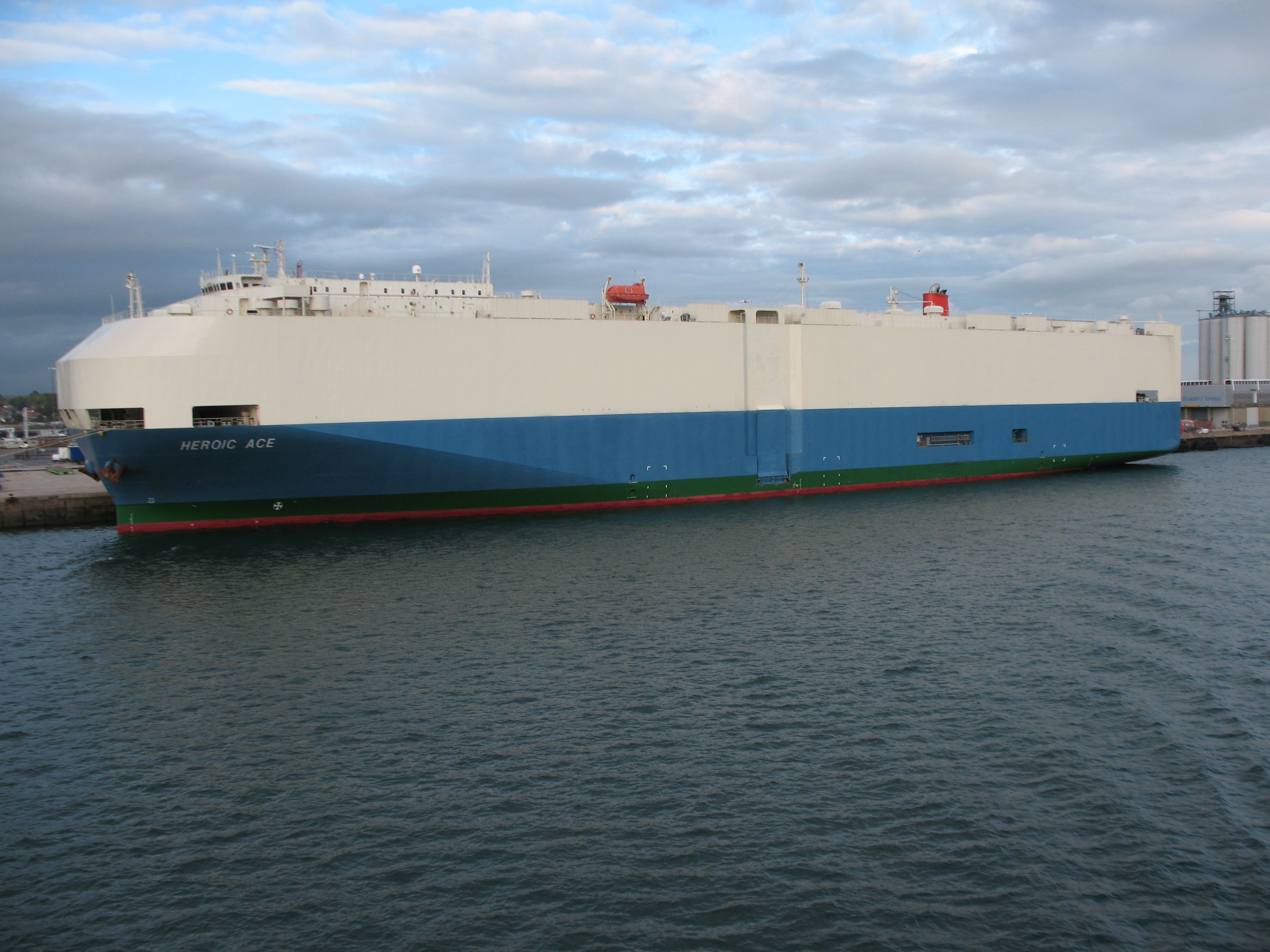 "Heroic Ace" docked at Southampton, England, 11th August 2011.